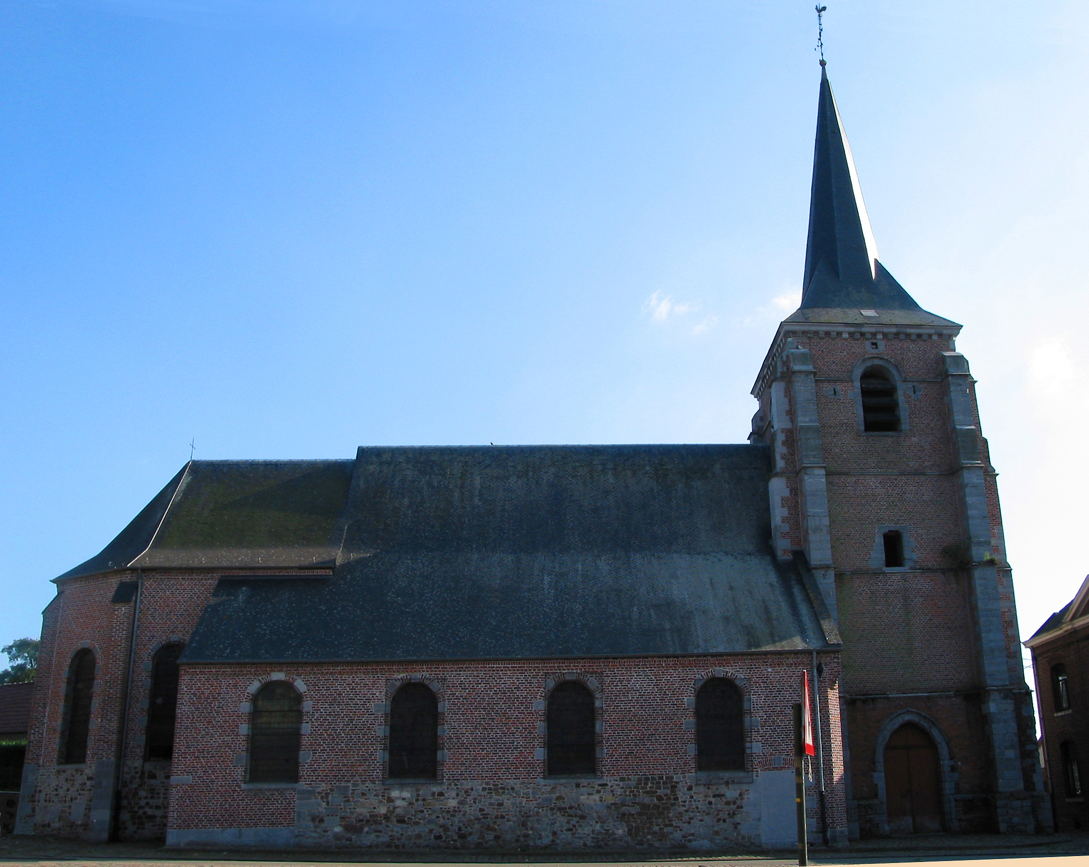 Angre (Belgium), Saint Martin's church (XVIth century).